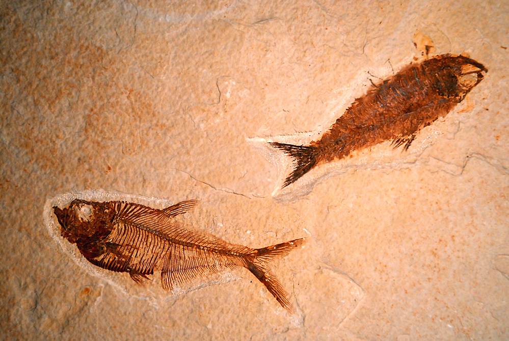 Fossil Fish from the GRF of Colorado. Diplomystus and Knightia fossil fish